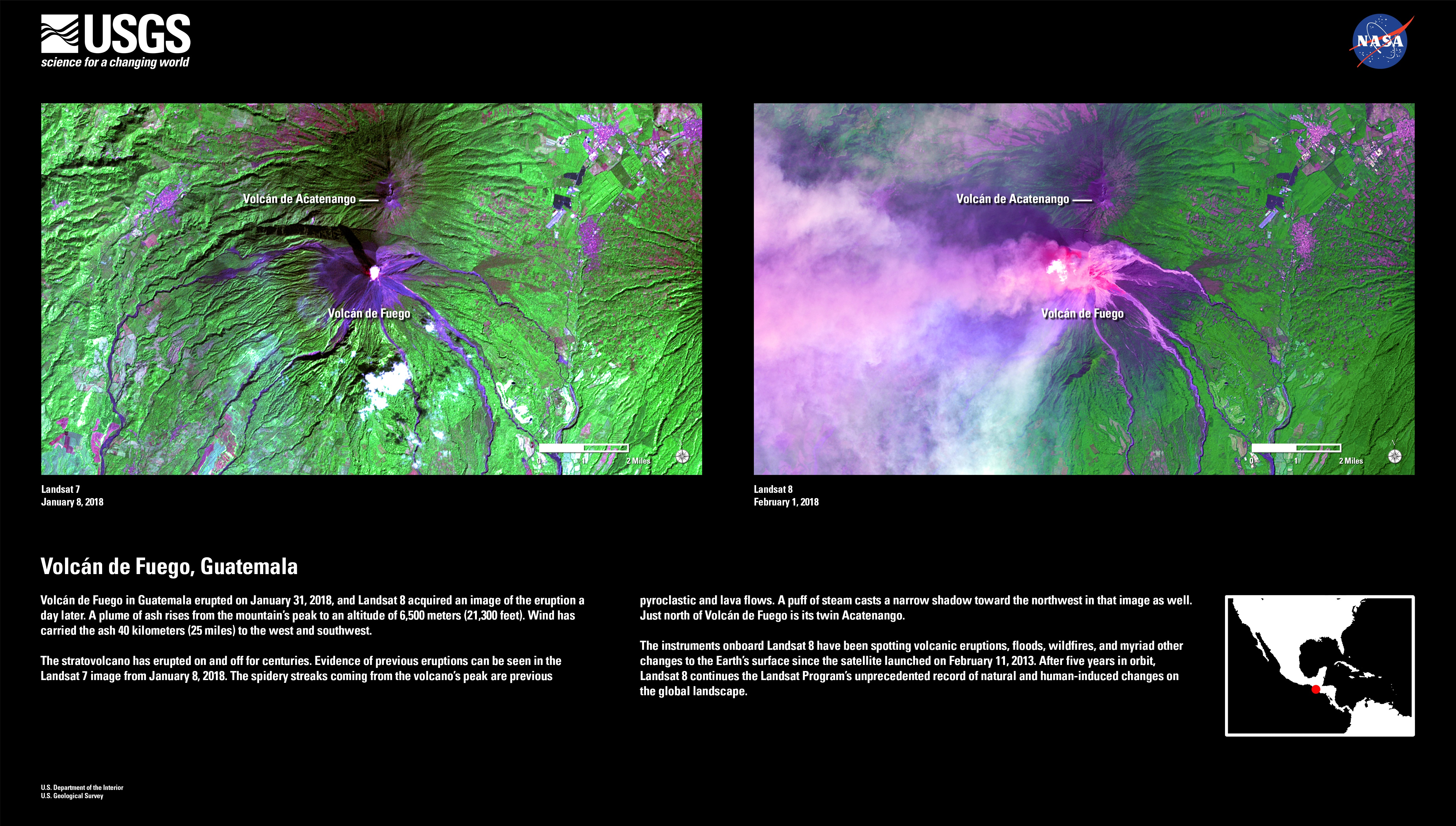 Volcán de Fuego in Guatemala erupted on January 31, 2018, and Landsat 8 acquired an image of the eruption a day later. A plume of ash rises from the mountain’s peak to an altitude of 6,500 meters (21,300 feet). Wind has carried the ash 40 kilometers (25 miles) to the west and southwest. The stratovolcano has erupted on and off for centuries. Evidence of previous eruptions can be seen in the Landsat 7 image from January 8, 2018. The spidery streaks coming from the volcano’s peak are previous pyroclastic and lava flows. A puff of steam casts a narrow shadow toward the northwest in that image as well. Just north of Volcán de Fuego is its twin Acatenango. The instruments onboard Landsat 8 have been spotting volcanic eruptions, floods, wildfires, and myriad other changes to the Earth’s surface since the satellite launched on February 11, 2013. After five years in orbit, Landsat 8 continues the Landsat Program’s unprecedented record of natural and human-induced changes on the global landscape.